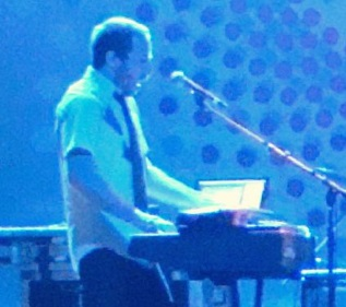 David Gutman. Brazilian Girls in concert at Terminal 5 in New York City